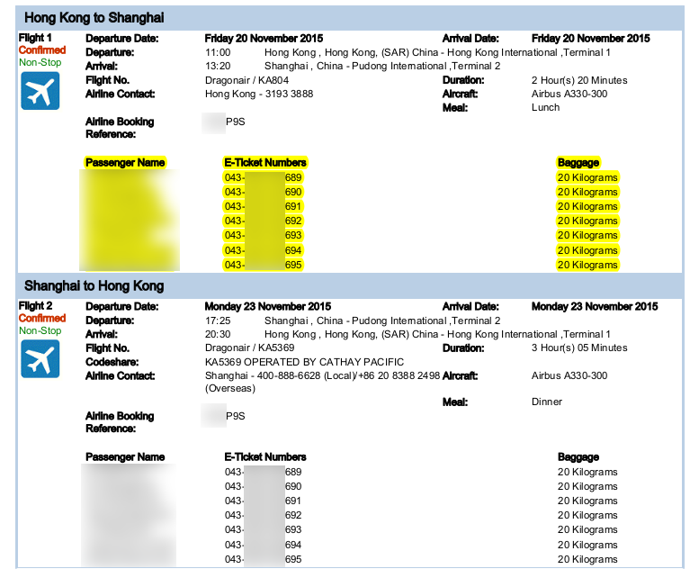 An air ticket showing multiple passengers in a PNR but with individual ticket numbers.